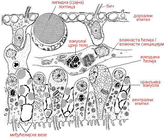 Scheme of Placozoan anatomy